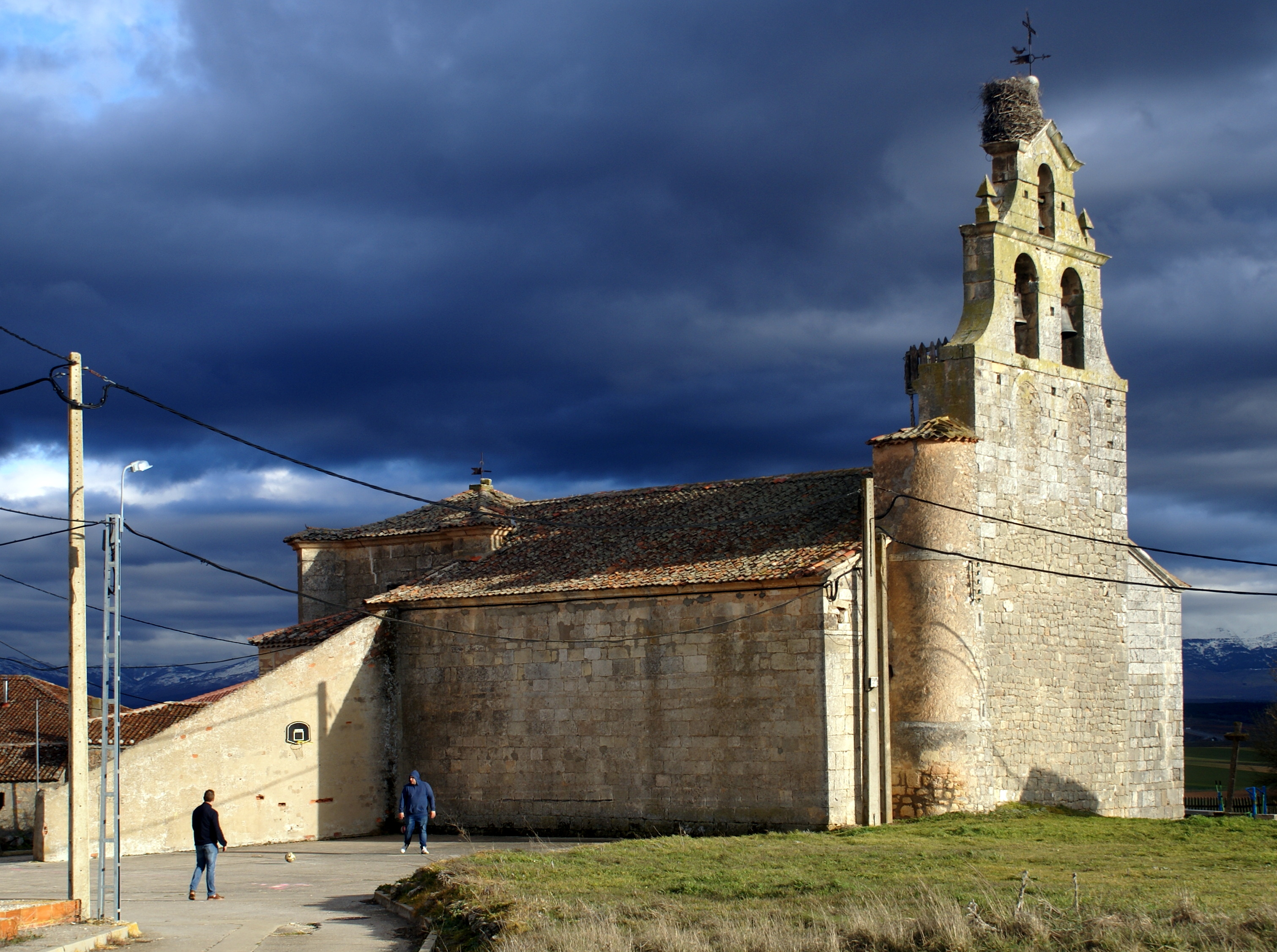 Church of Encinas, Segovia, Spain.